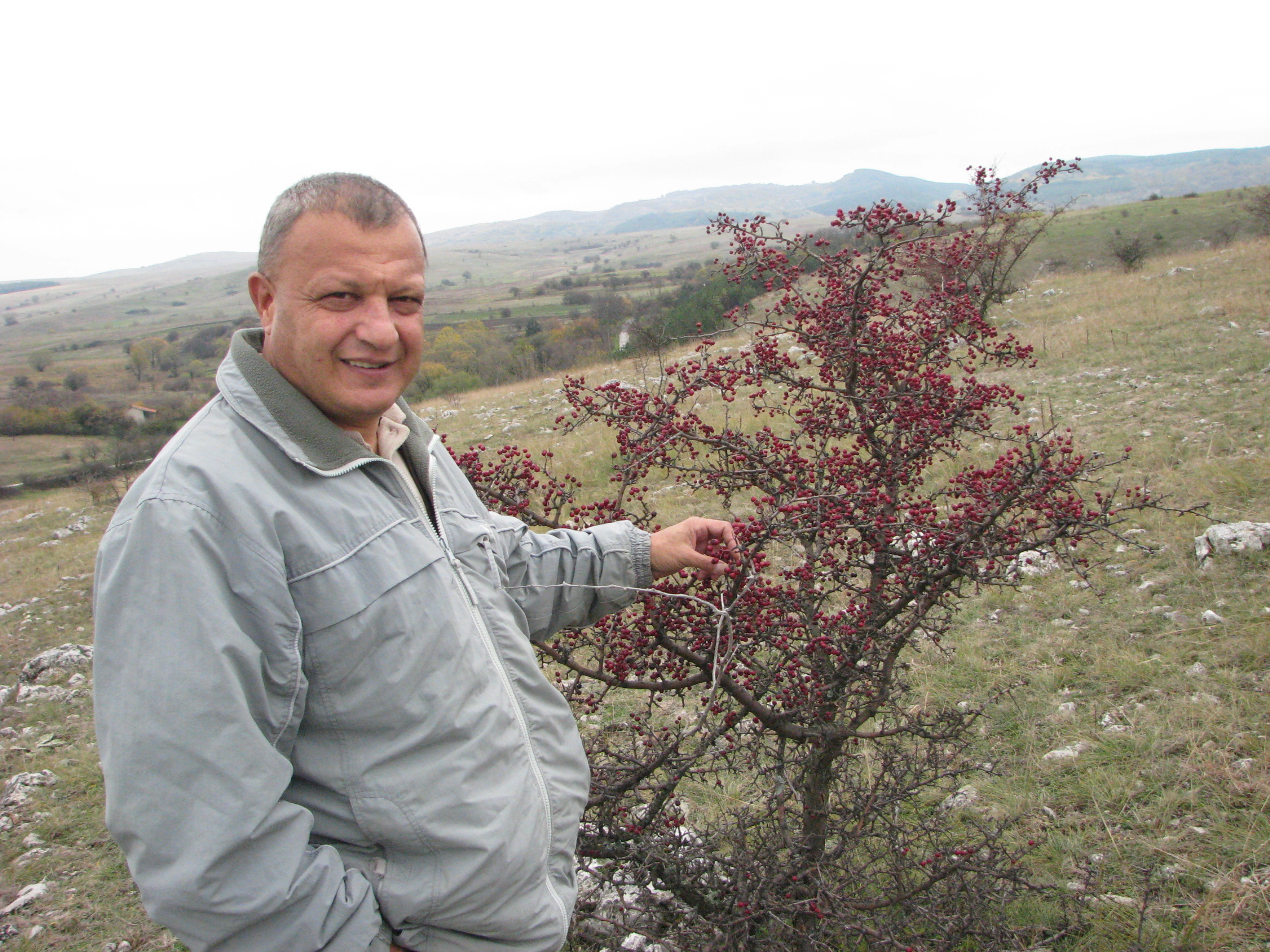 Bulgarian geographer Nikola Todorov